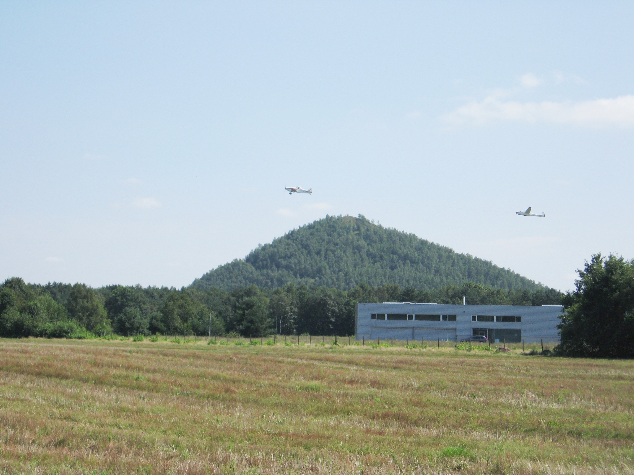 Slag heap of Waterschei, Genk, Limburg, Belgium; Gliders